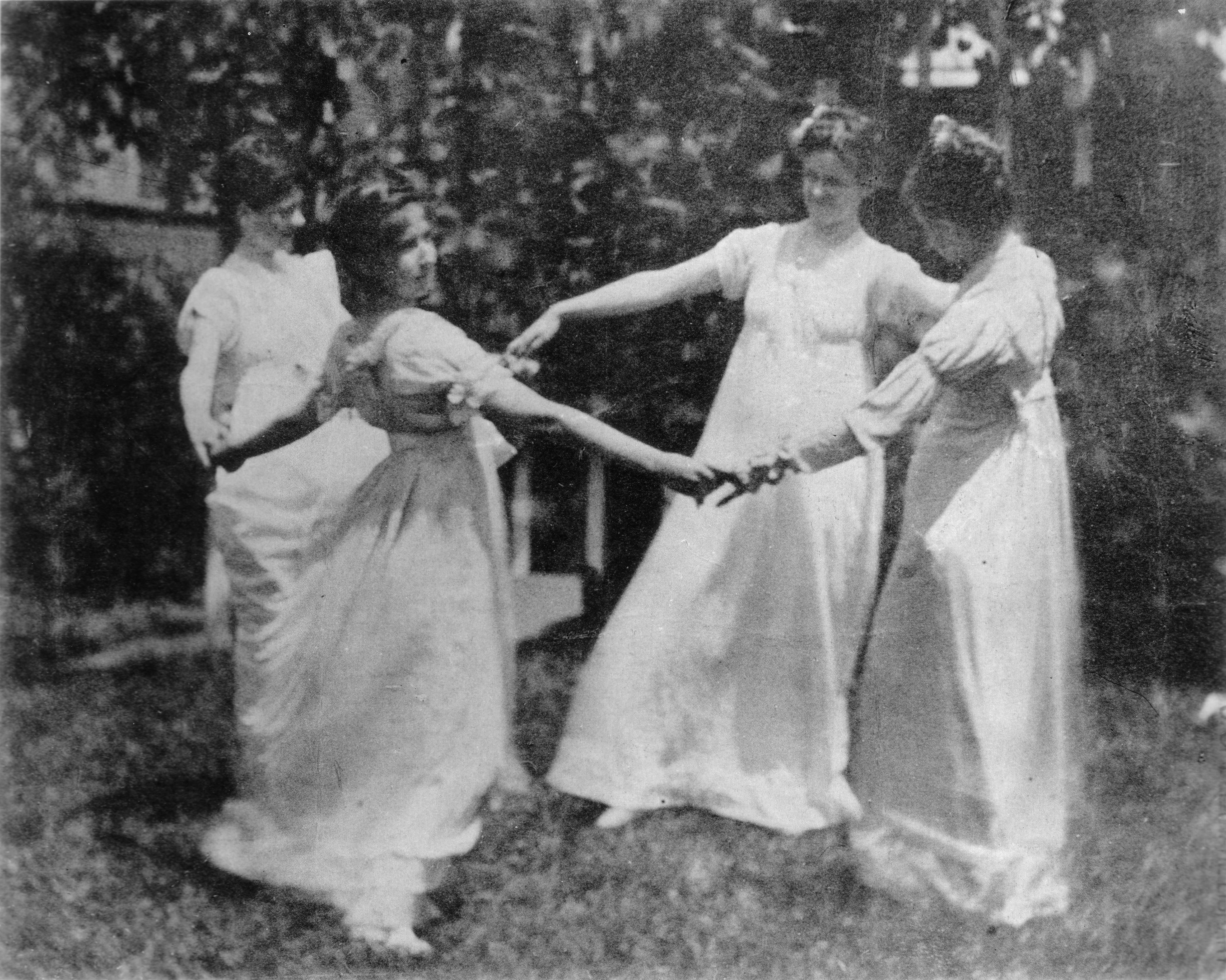 Photograph by Thomas Eakins of Susan Hannah Macdowell, Unidentified Girl, Elizabeth Macdowell, and possibly Mary Macdowell at the Macdowell House. Platinum print on paper